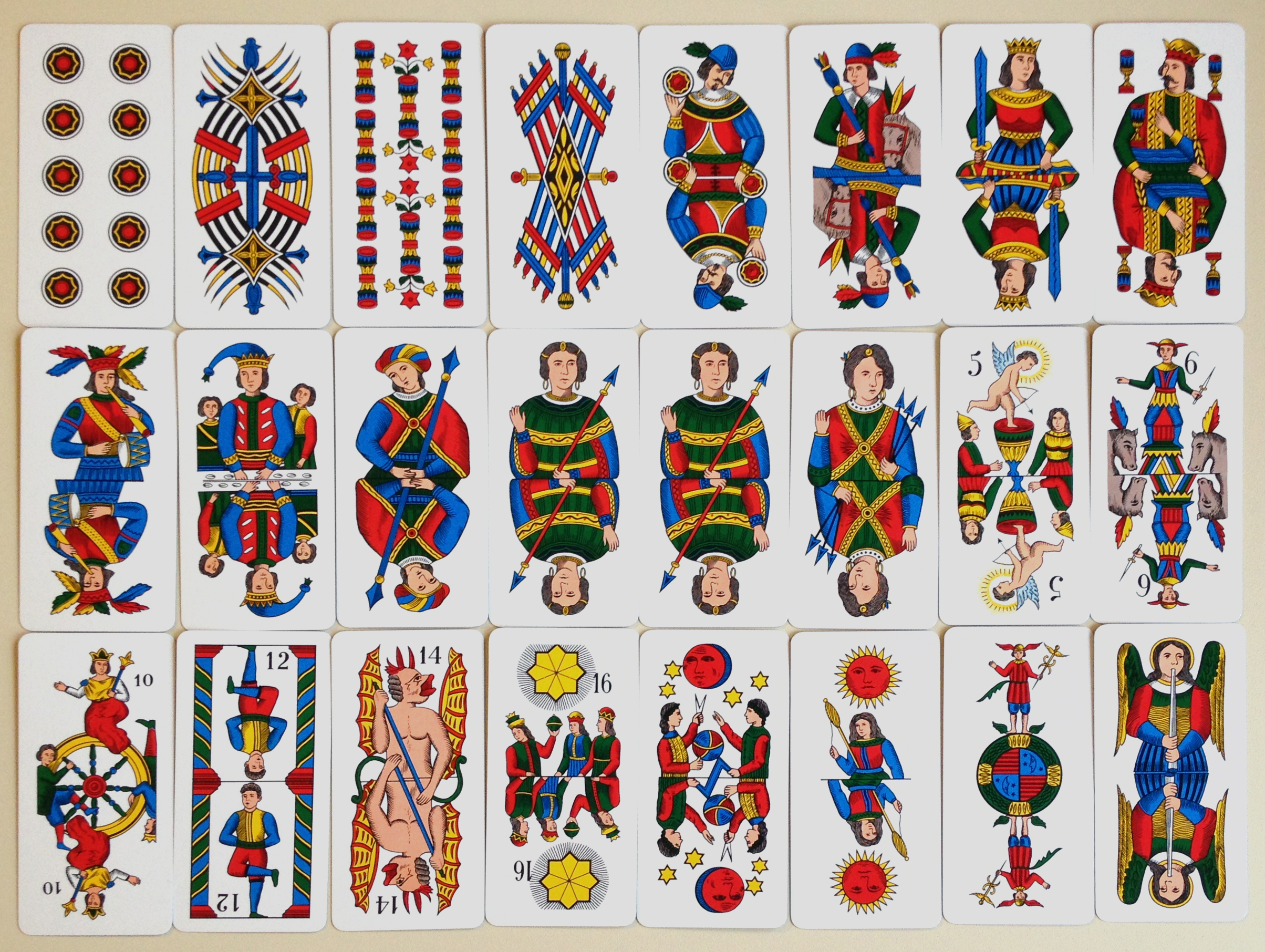 Photo of select cards from a Tarocco Bolognese deck. These particular ones are made by Dal Negro. The design of this standard pattern hasn't changed since the late 18th century and its earliest versions date to the 15th century.